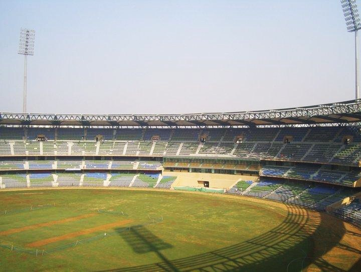 Wankhede Stadium in Feb 2011